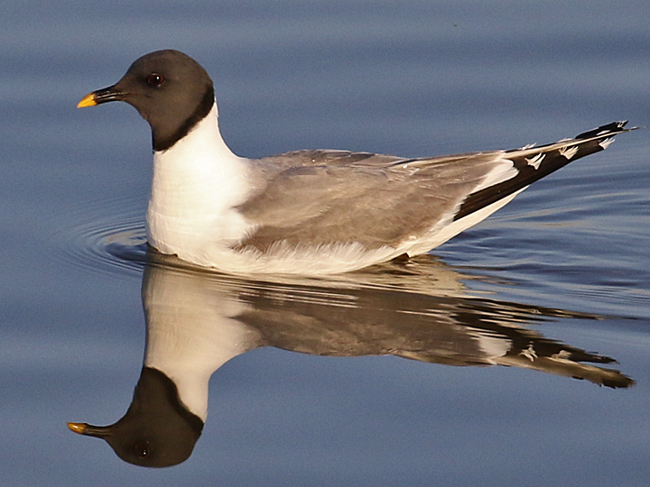 Sabine's Gull